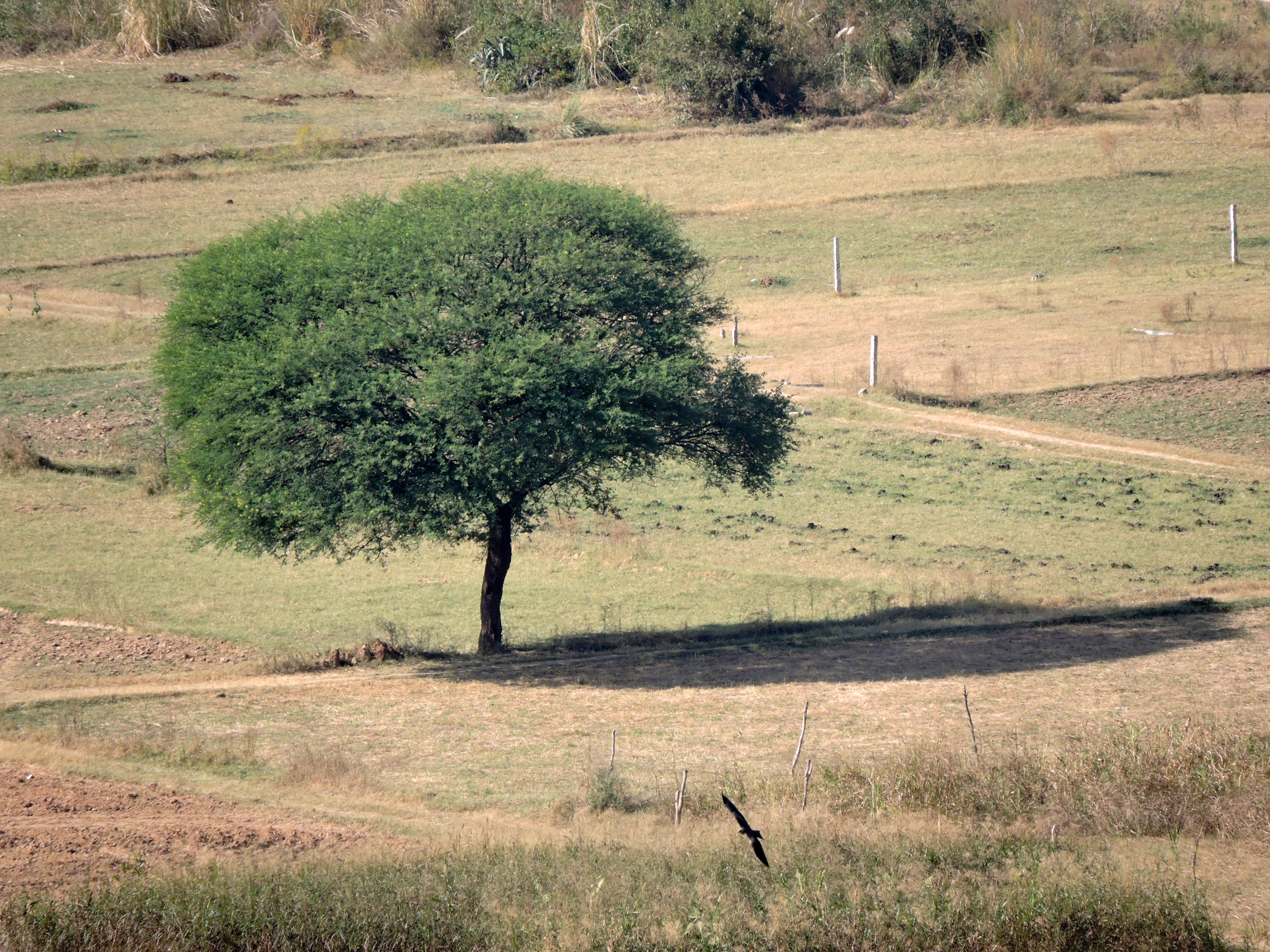 Vachellia nilotica near Jainty Majri town, Punjab, India